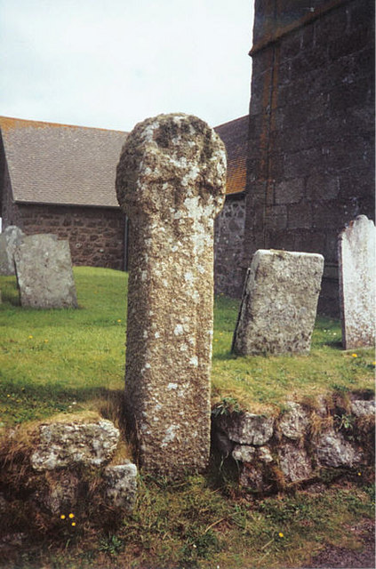 Sennen Church Yard Celtic Cross This fine Cross is at the side of the Church nearest the road.